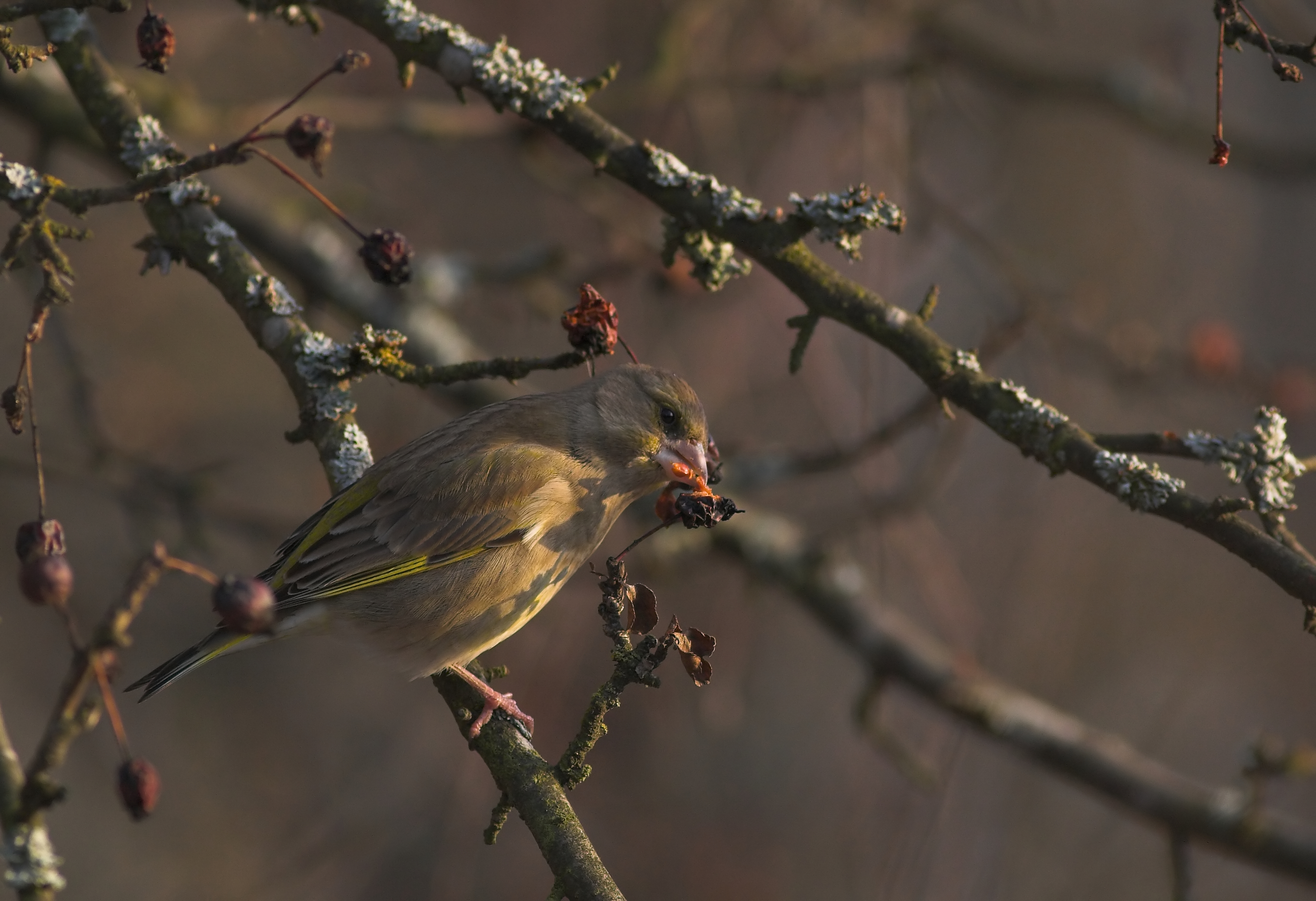 Carduelis chloris (European Greenfinch) eating a berry.